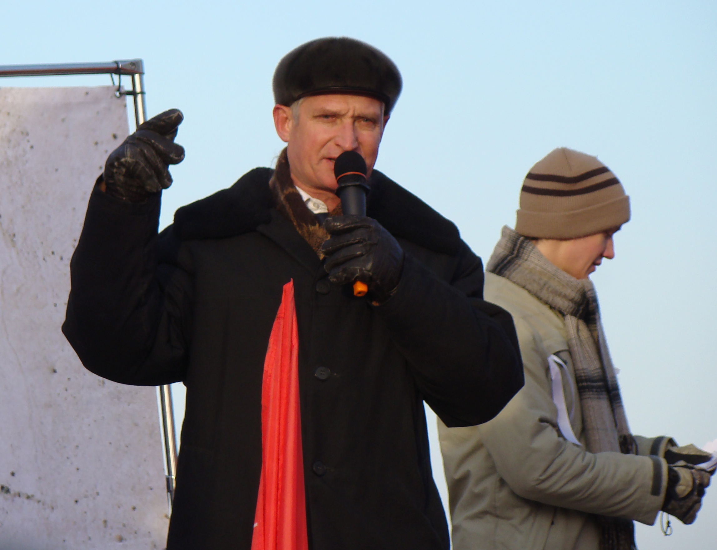 Nikolay Ryabov, Member of the State Duma (Communist Party of Russian Federation) speaks on the rally, 4 February 2012